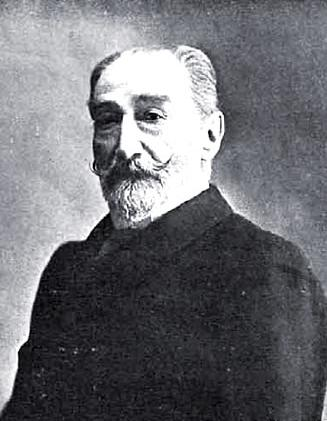 Spanish Politician Amos Salvador Rodrigáñez